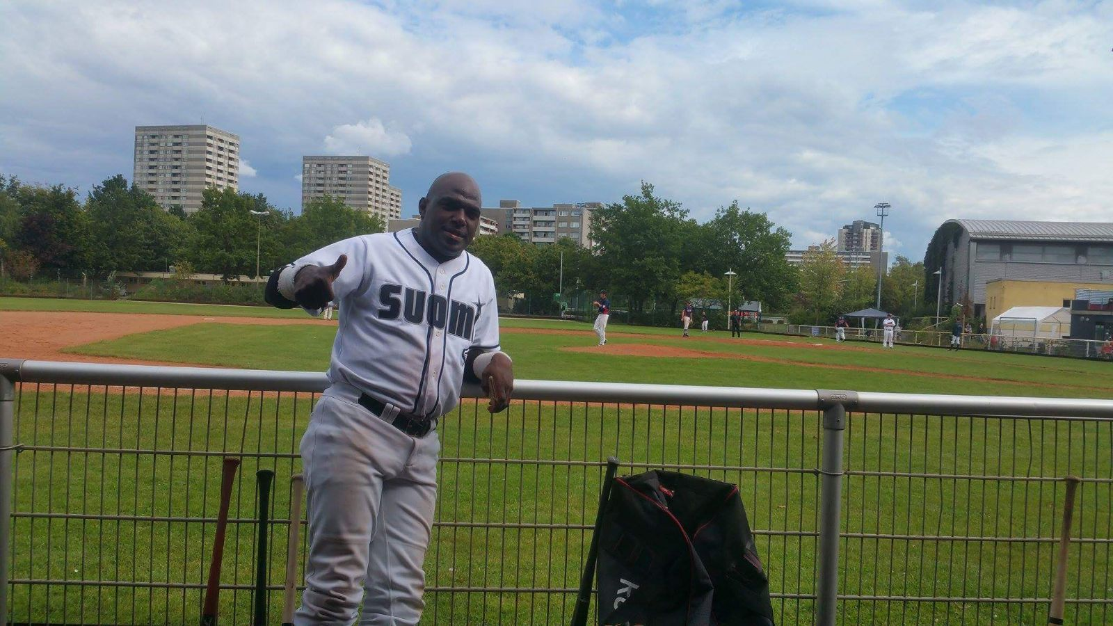 Andres Mena of cuban origin is one of the best players in the league and in the Finnish National Team roster